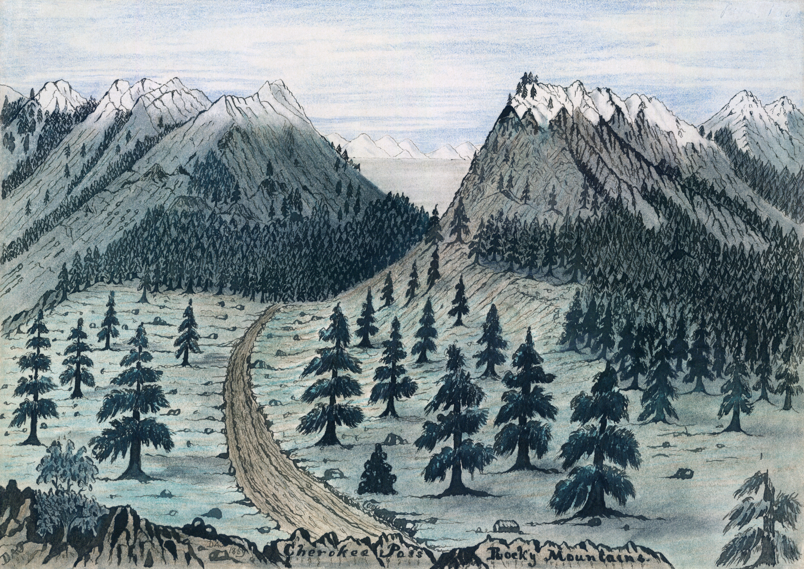 Rocky Mountains, Cherokee Pass: "Drawing shows a dirt trail among pine trees leading toward a heavily forested pass between snow-capped mountains. This pass, near present-day Ft. Collins, Colorado, heads north toward the Oregon and California Trail. This was camp 59 for Jenks' party on Tuesday, June 7, 1859. He wrote of that day's camp, 'Our wagons had to be chained to keep them in their places, the hillside was so steep.'" "1 drawing on paper : graphite, ink, watercolor and crayon"